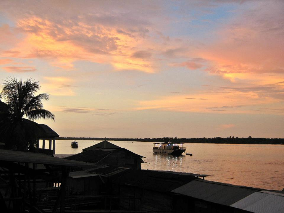 Atardeceres pacíficos